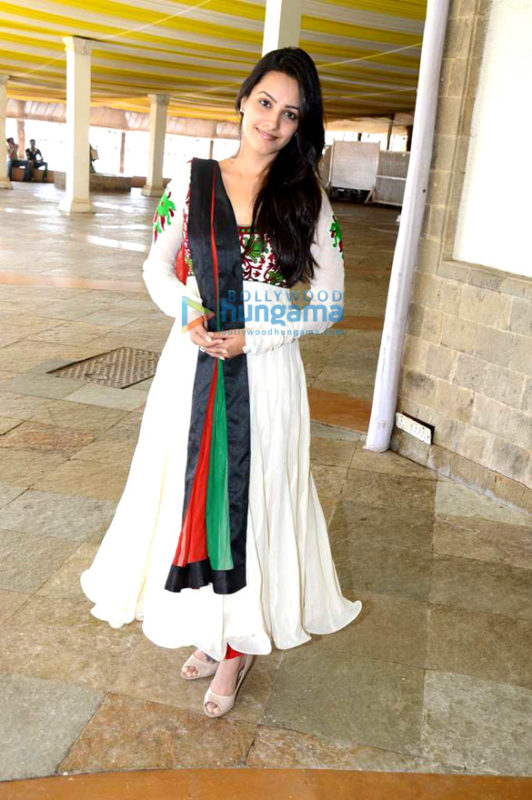 Bindass's show Yeh Hai Aashiqui launch party